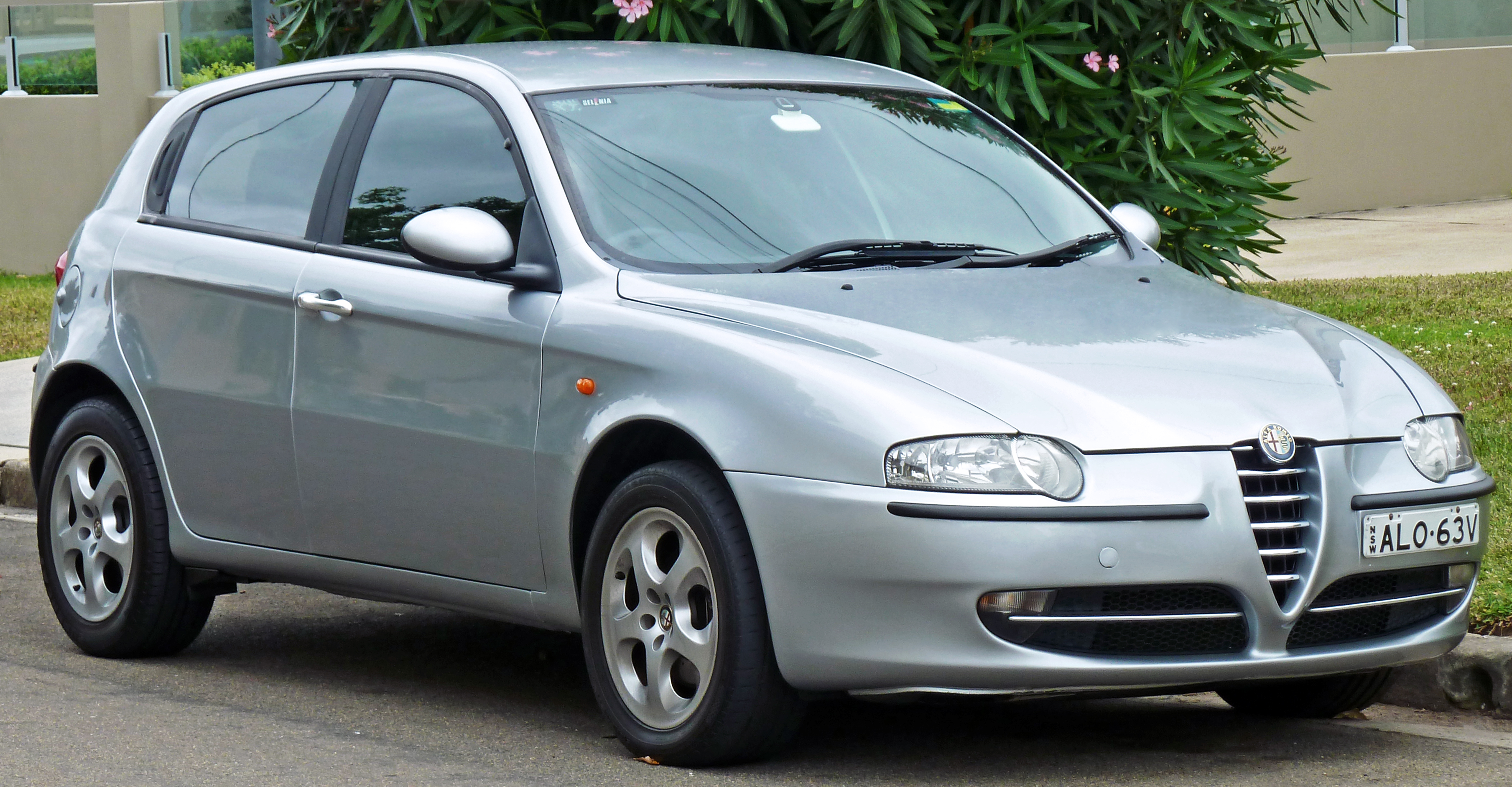 2002 Alfa Romeo 147 (MY02) Selespeed Twin Spark 5-door hatchback. Photographed in Dolls Point, New South Wales, Australia.